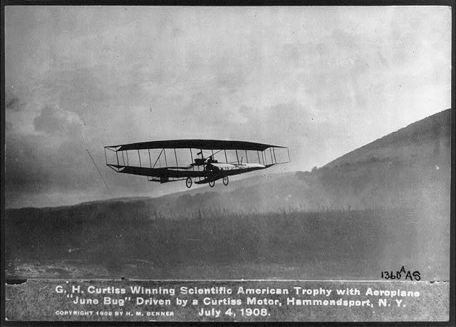 AEA June Bug. The June Bug (or Aerodrome #3) was an early aircraft designed by Glenn Curtiss and built by the Aerial Experiment Association in 1908.